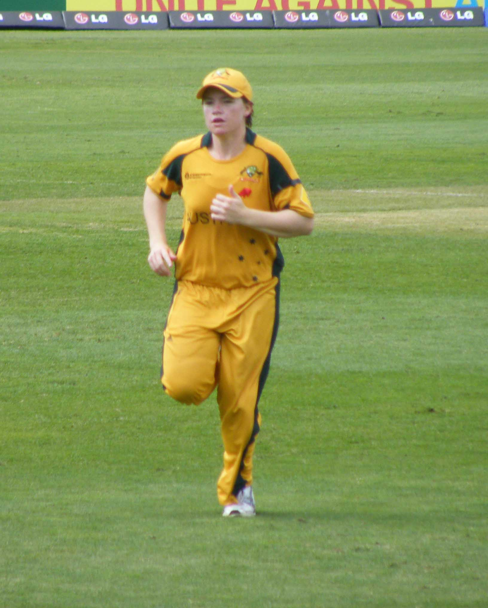 Australian Cricketer - Jessica Cameron - Womens Cricket World Cup - Sydney March 2009.